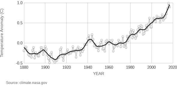 Temperature data from four international science institutions. All show rapid warming in the past few decades and that the last decade has been the warmest on record. Data sources: NASA's Goddard Institute for Space Studies, NOAA National Climatic Data Center, Met Office Hadley Centre/Climatic Research Unit and the Japanese Meteorological Agency. (Graph produced by Earth Science Communications Team at NASA's Jet Propulsion Laboratory | California Institute of Technology)